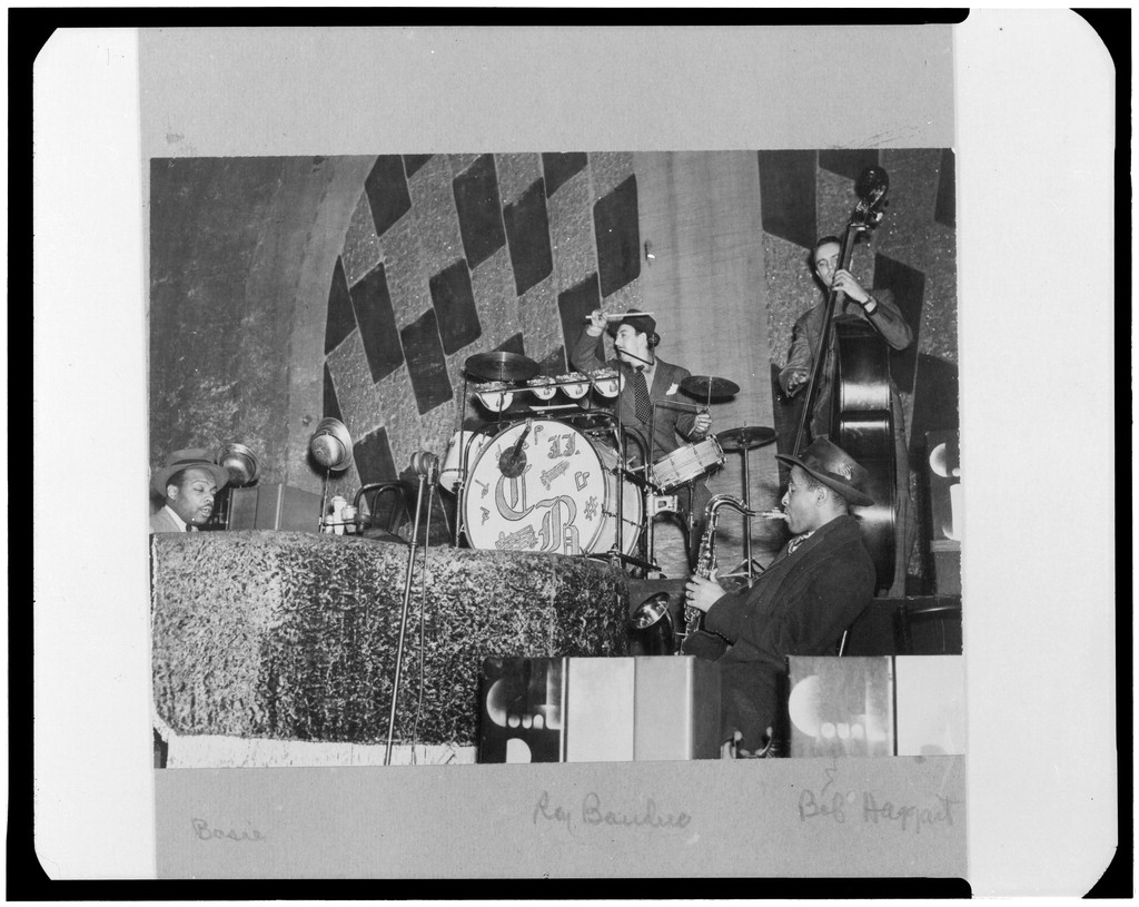 Gottlieb, William P., 1917-, photographer. [Portrait of Count Basie, Ray Bauduc, Herschel Evans, and Bob Haggart, Howard Theater, Washington, D.C., ca. 1941] 1 negative : b&w ; 4 x 5 in. Notes: Gottlieb Collection Assignment No. 021 Reference print available in Music Division, Library of Congress. Purchase William P. Gottlieb Forms part of: William P. Gottlieb Collection (Library of Congress). Subjects: Basie, Count, 1904- Bauduc, Ray Evans, Herschel Haggart, Bob Count Basie Orchestra Jazz musicians--1930-1950. Pianists--1930-1950. Drummers (Musicians)--1930-1950. Double bassists--1930-1950. Saxophonists--1930-1950. Howard Theater Format: Portrait photographs--1930-1950. Group portraits--1930-1950. Film negatives--1930-1950. Rights Info: Mr. Gottlieb has dedicated these works to the public domain, but rights of privacy and publicity may apply. Repository: (negative) Library of Congress, Prints & Photographs Division, Washington D.C. 20540 USA, (reference print) Library of Congress, Music Division, Washington D.C. 20540 USA, Part Of: William P. Gottlieb Collection (DLC) 99-401005 General information about the Gottlieb Collection is available at Persistent URL: Call Number: LC-GLB13- 0048 This work is from the William P. Gottlieb collection at the Library of Congress. Rights and restrictions.In accordance with the wishes of William Gottlieb, the photographs in this collection entered into the public domain on February 16, 2010.